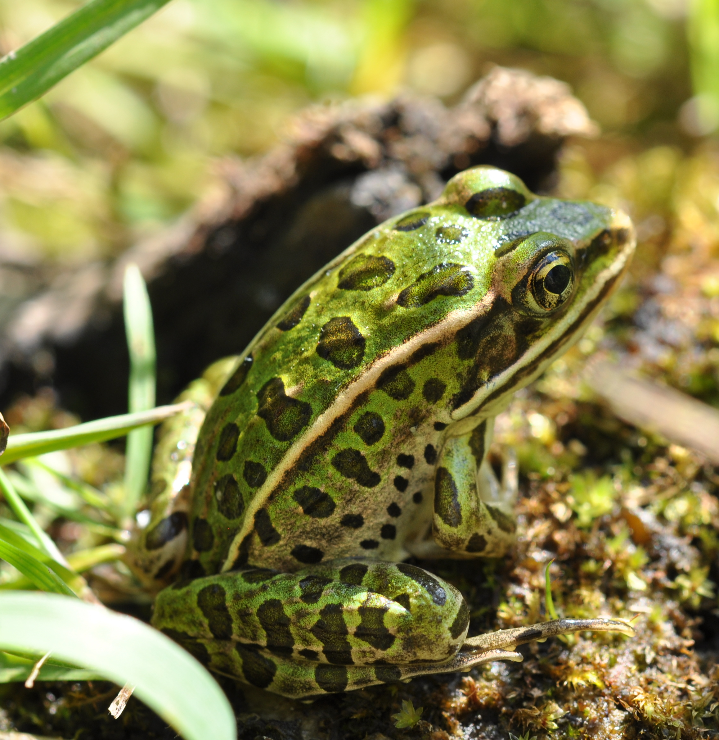 A Northern Leopard Frog found in the Laurel Creek Conservation Area.